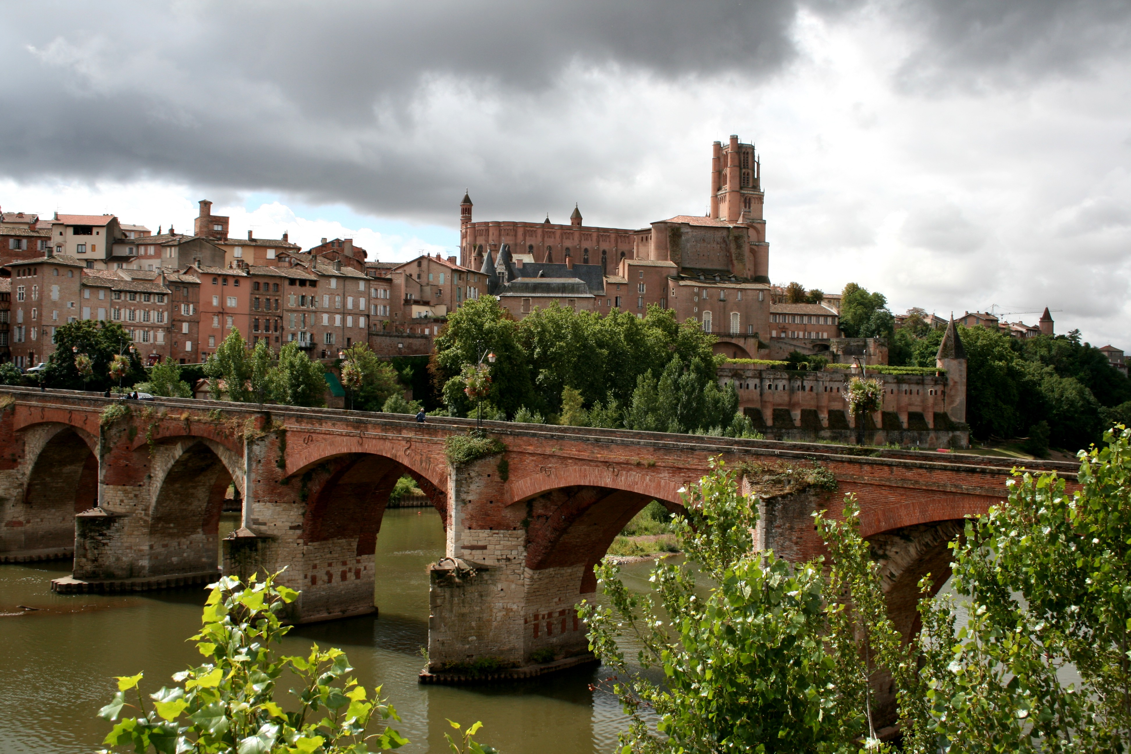 Albi, capital of the departement of Tarn in southwestern France, showing the Pont Vieux ("old bridge") over the Tarn river and Sainte-Cécile cathedral in the background.